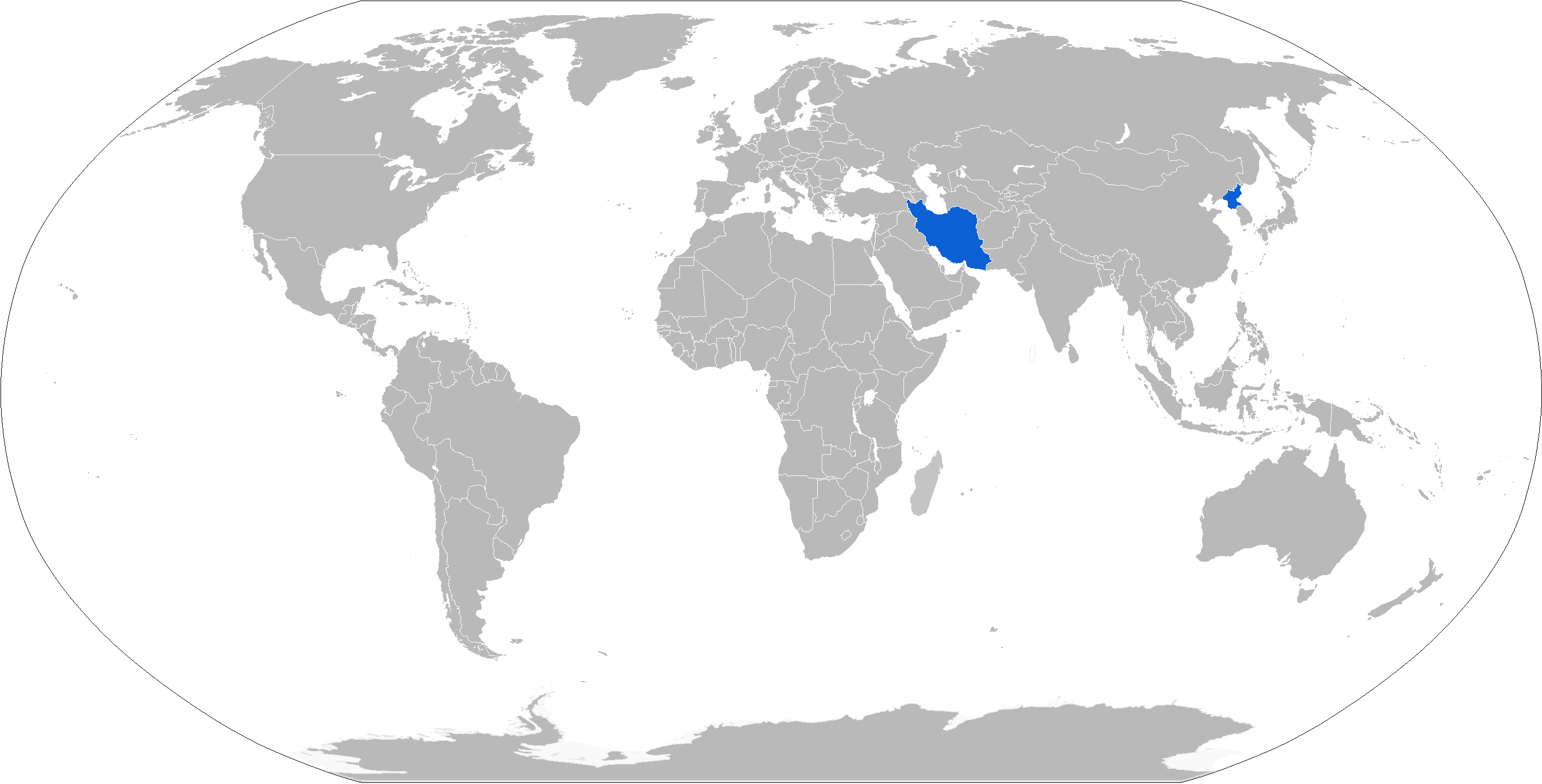 Map with Shabab-3 operators in blue